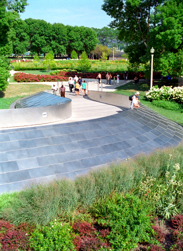 BP Pedestrian Bridge entry